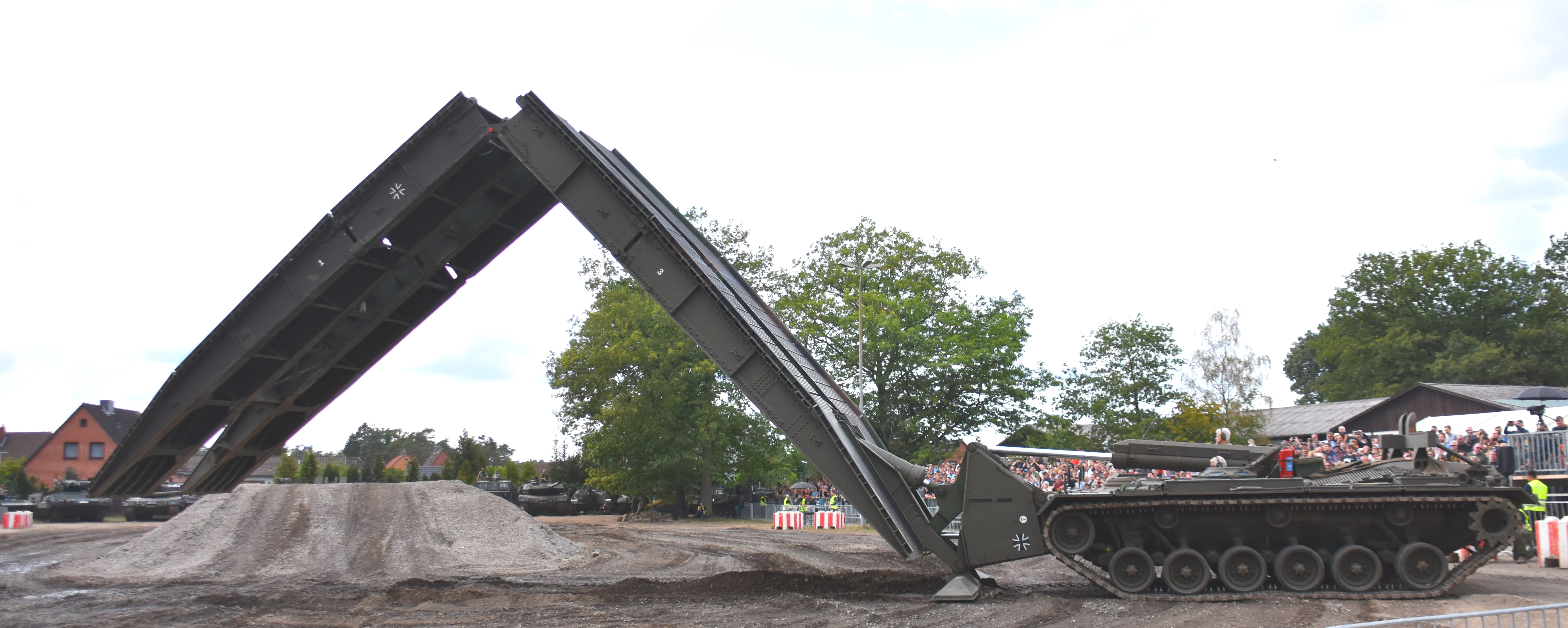 M48A2 AVLB at 'Stahl auf der Heide 2019', German Tank Museum Munster